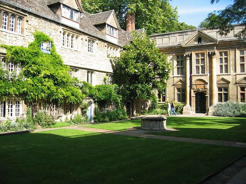 Image of St Edmund Hall, Oxford Image found at [1]. As per text on [2], owner has released image into the public domain. “Feel free to browse around my web site and look at my (amateur) photographs. You are welcome to download my photographs or to put them on your web page. In the latter case, a link to my web site would be much appreciated if possible.”